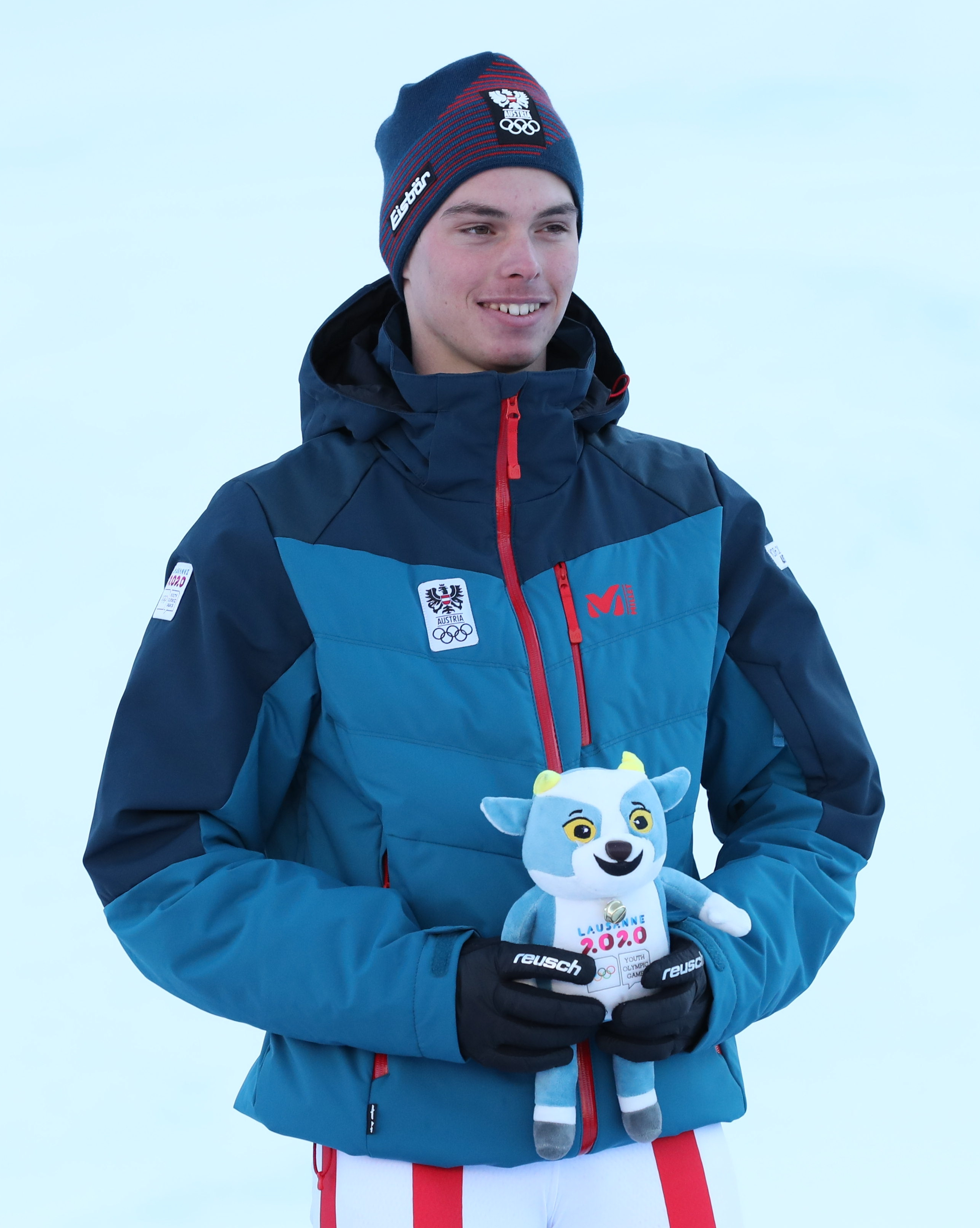 Mascot Ceremony at the Men's Giant Slalom at the 2020 Winter Youth Olympics in Lausanne